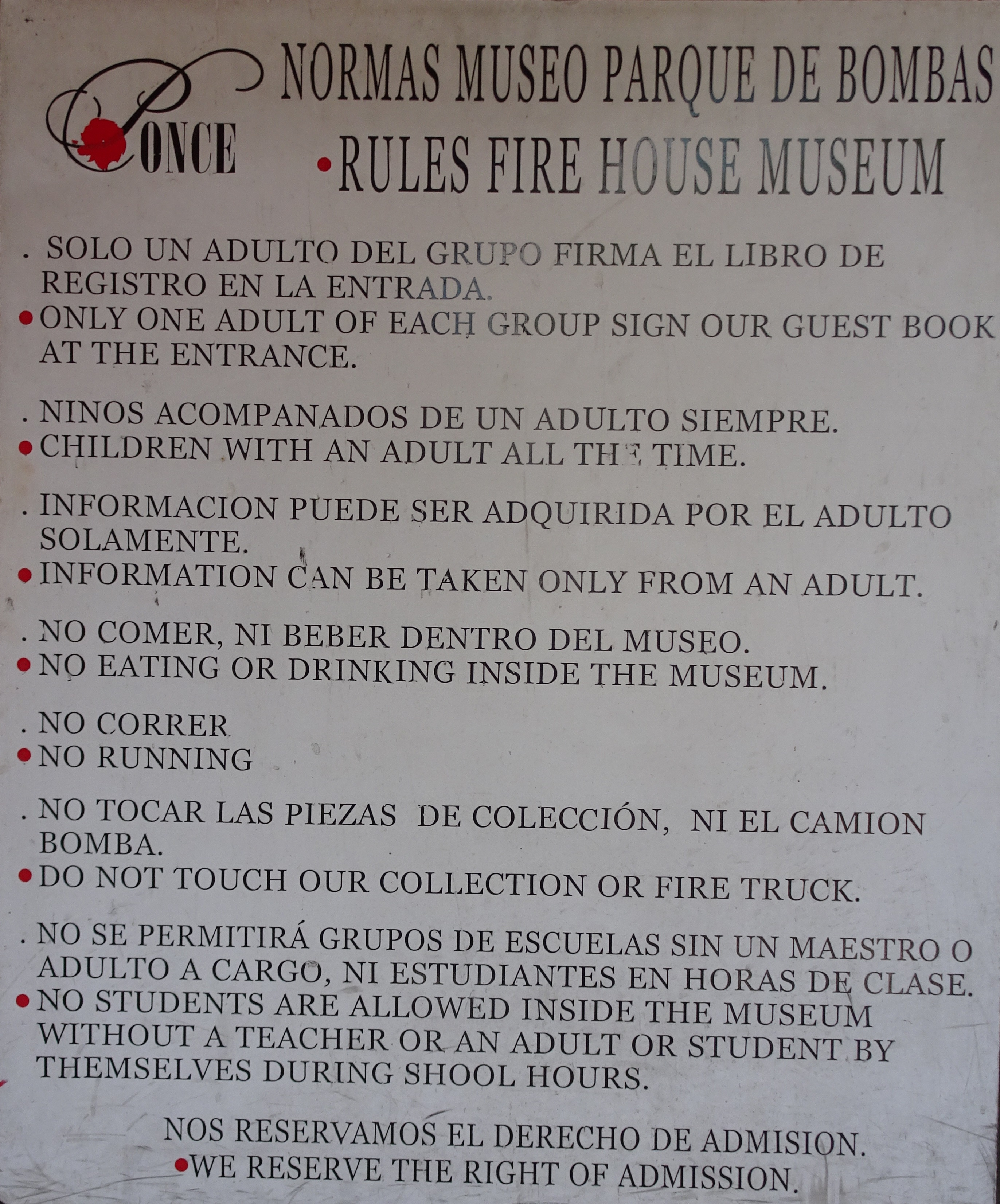 Reglas del Museo Parque de Bombas, en Plaza Las Delicias, Ponce, PR (DSC00881A)